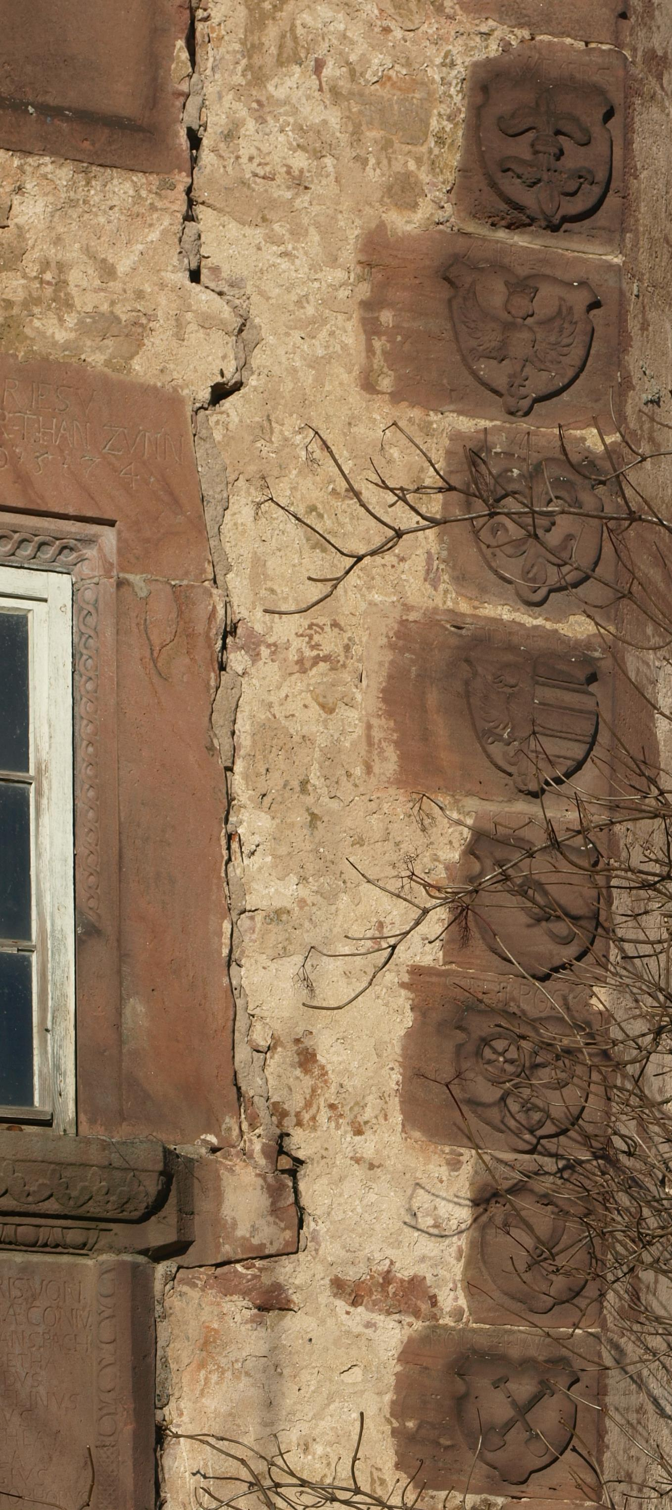 Ancestors of Anna von Ebersberg gen. Weyers, indicated by family crests. Attached at polygonal tower of Blue Castle.